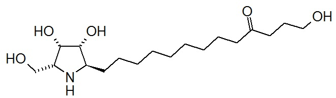 Broussonetinine A structure